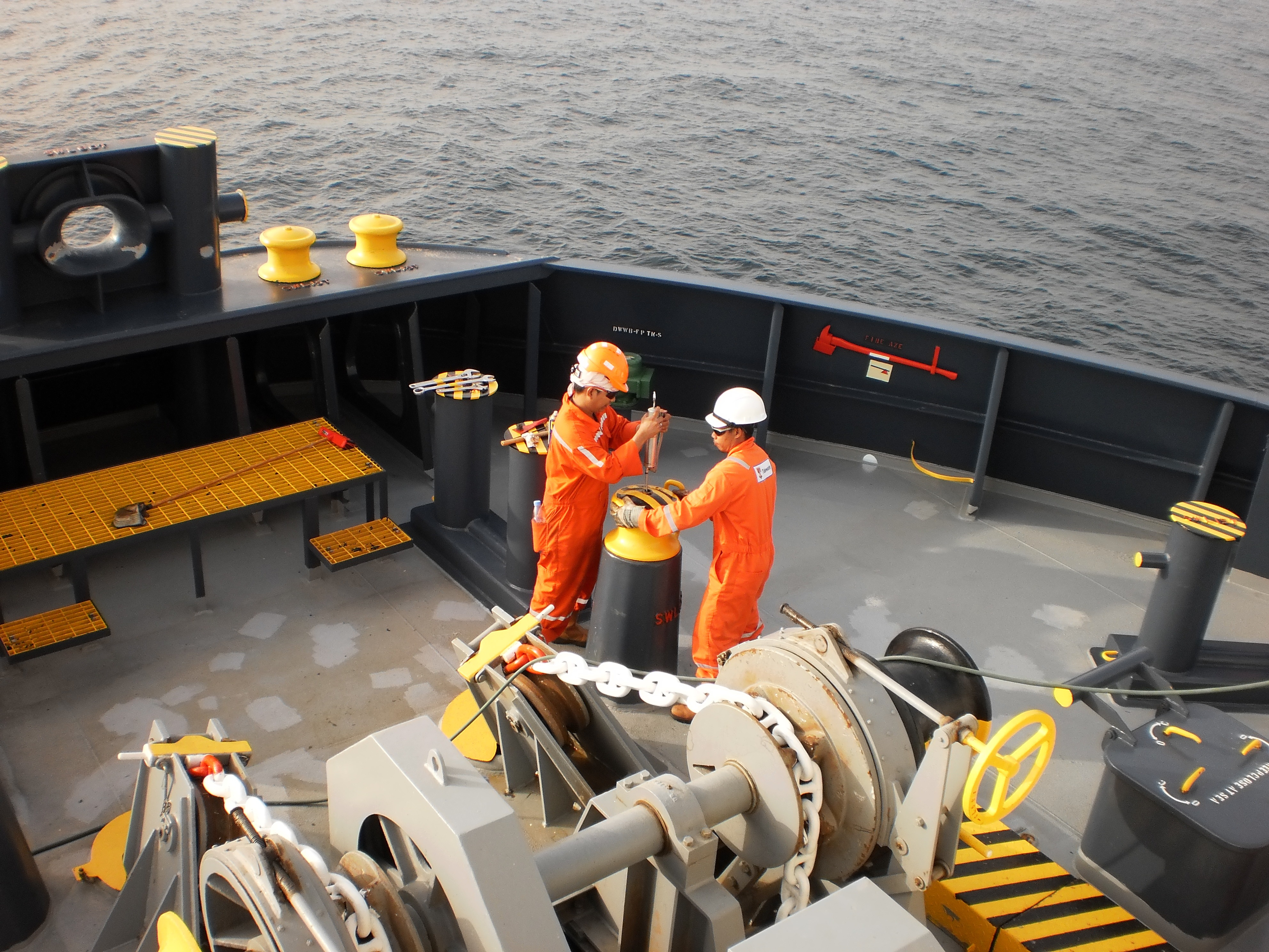 Seamen greasing roller of mooring equipment on foredeck of AHTS